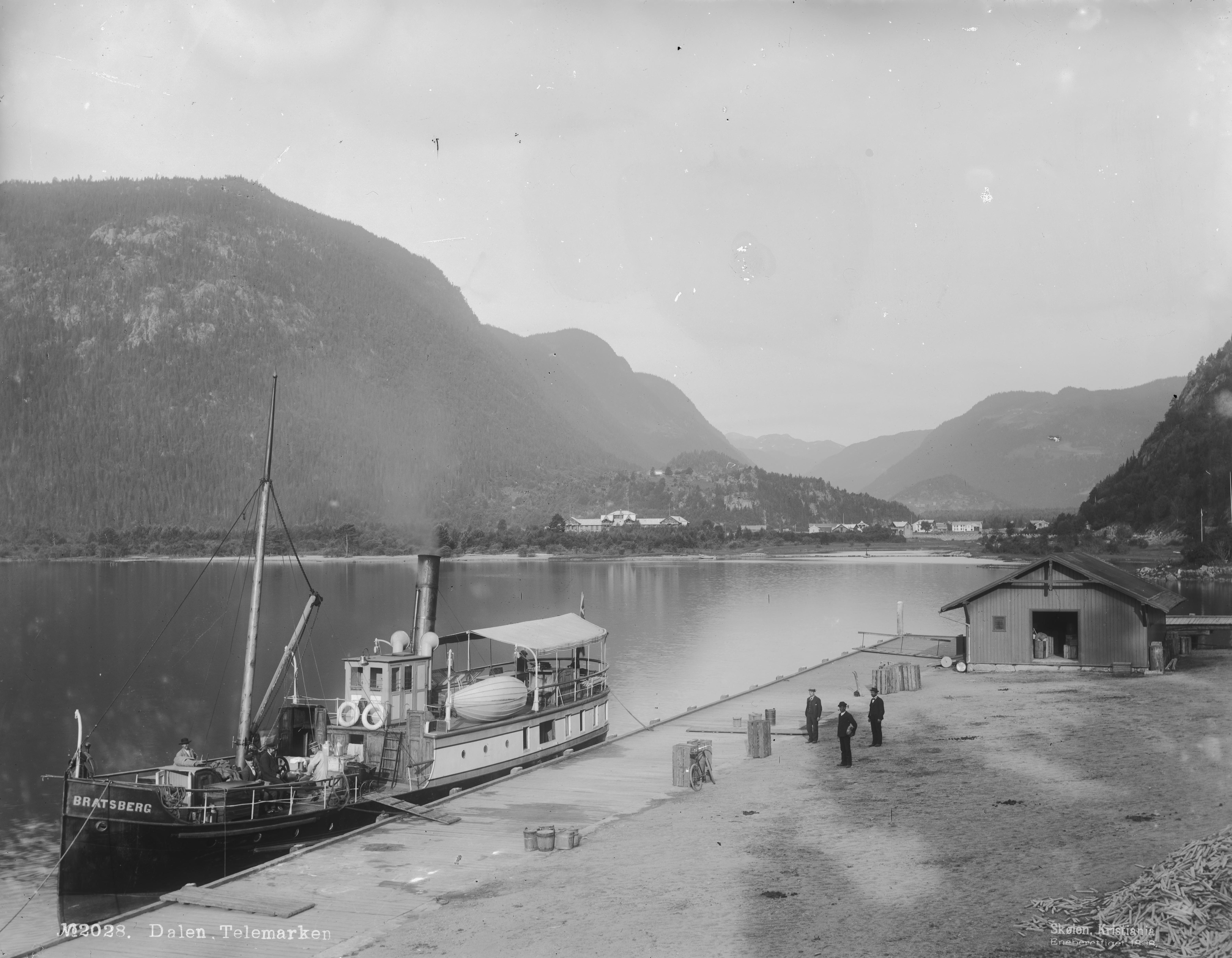 In the background: Dalen hotel in Dalen, Tokke, Telemark, Norway. In the foreground: The steamship «Bratsberg». Bandak lake.